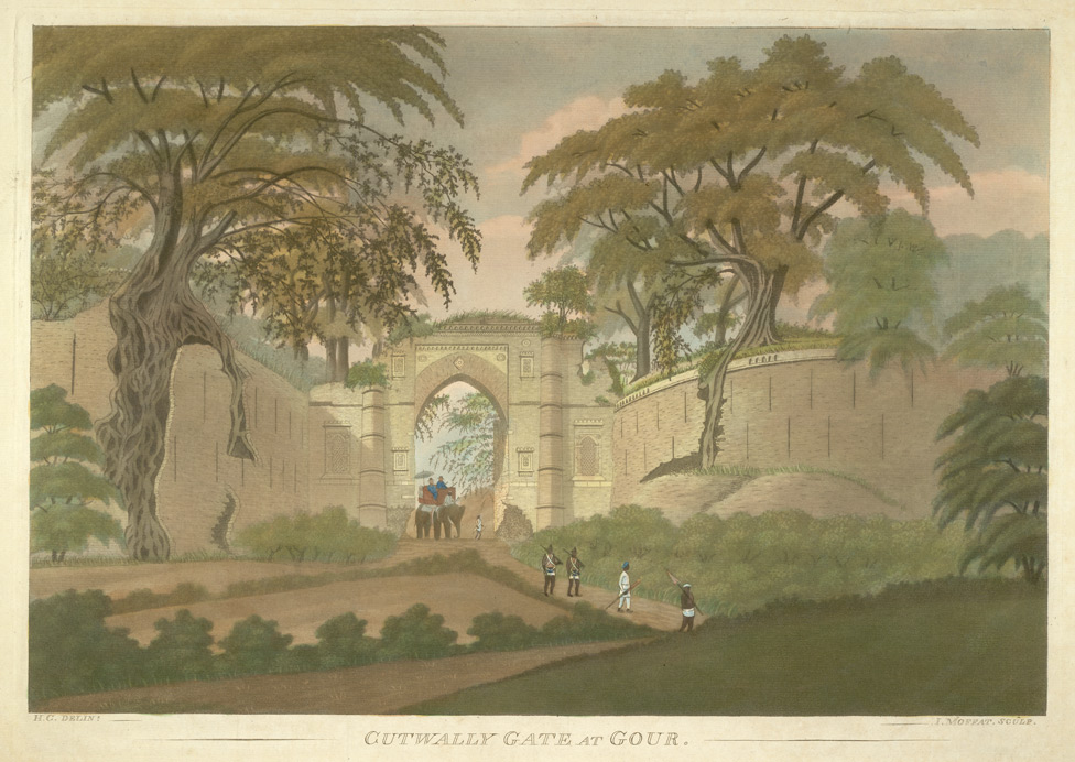 Kotwali Gate is one of the architectural monument of Gour, once known as Lakshmanavati or Lakhnauti.